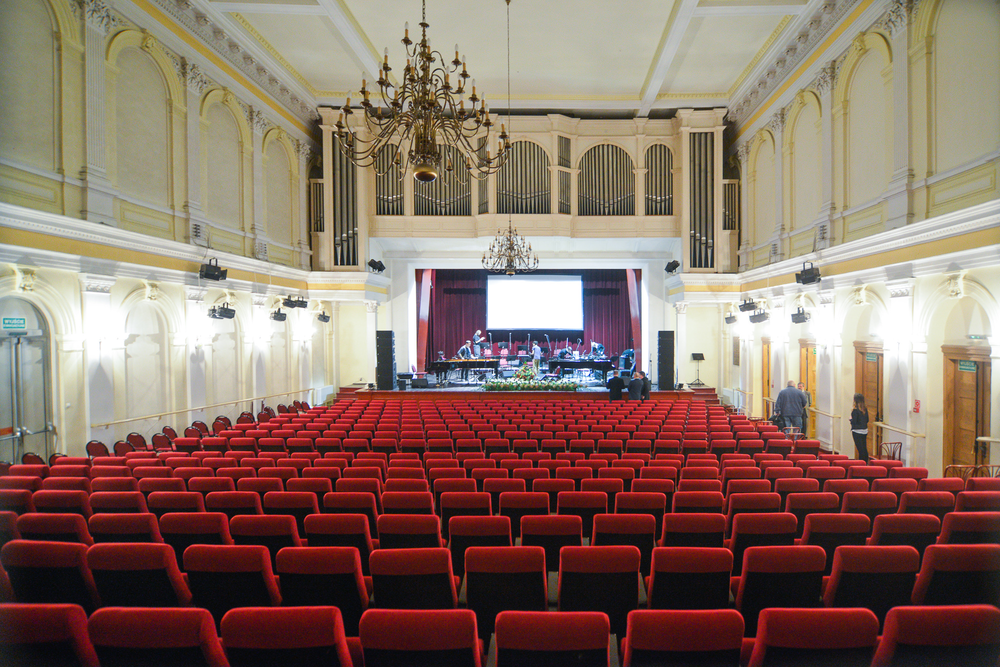 Bielsko Cultural Centre, House of Music, Bielsko-Biala, interior photography, the audience and the stage